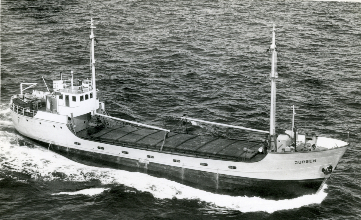 German coaster JÜRGEN (IMO 5177640) built at Mützelfeldtwerft, Cuxhaven, in 1950 (№ 22), collection J. Robert Boman (1926 - 2002), owned by Sjöhistoriska museet.